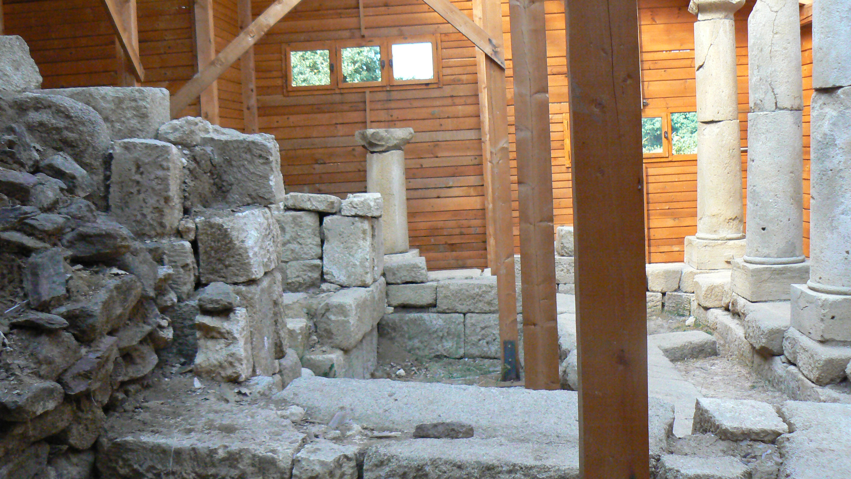 Thracian tumulus "Horizont" near the village of Starosel, Bulgaria. Unique with the colonnade of 10 columns in early Dorian style.